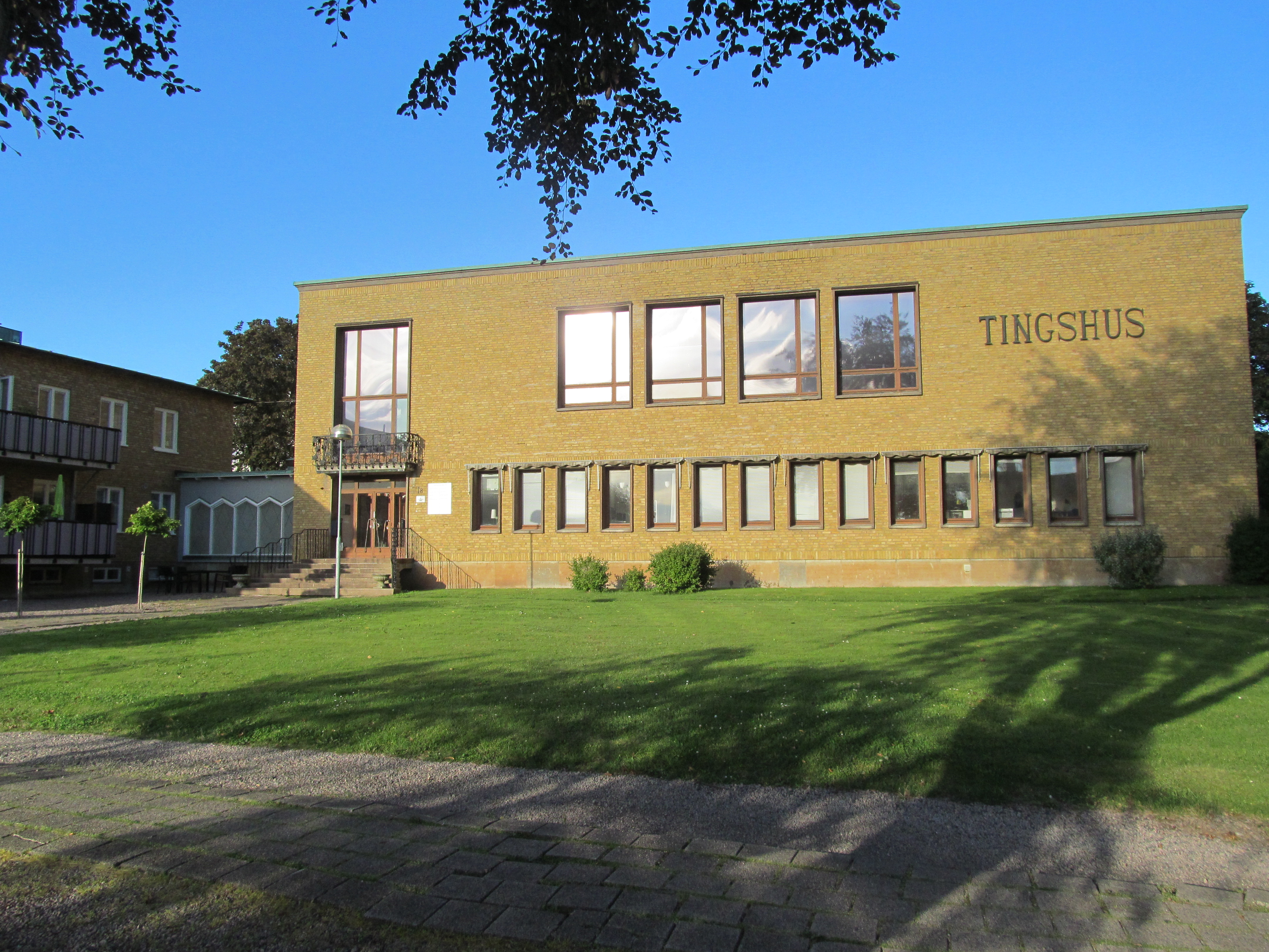 Building constructed as a courthouse in 1953 in Falköping, Sweden. Architect was Per Rundberg. The district court in Falköping merged with Skövde in 2001 and relocated to Skövde. Now the building is reconstructed for apartments and offices.